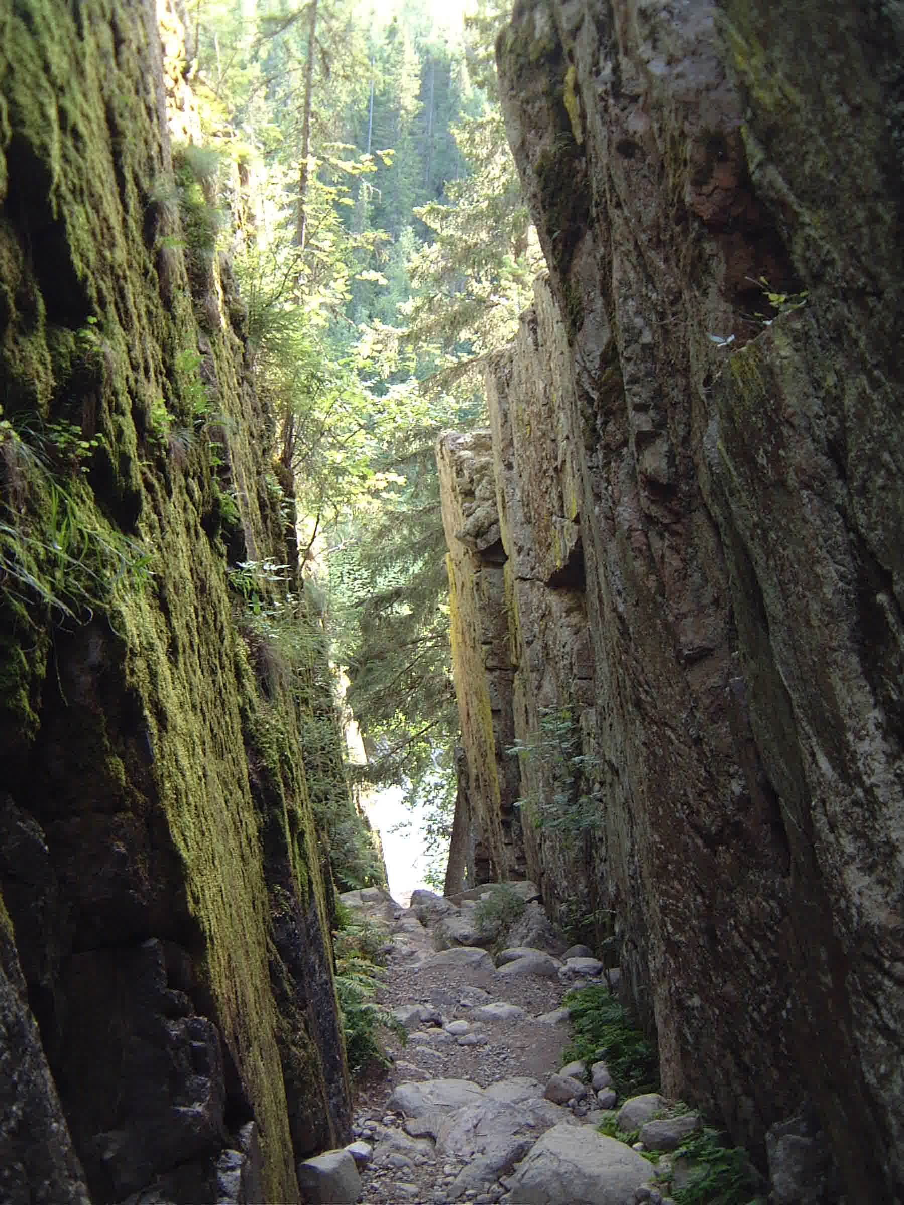 The ravine "Helvetinkoulu" ("Hell's School") in Helvetinjärvi national park (literally "Hell's Lake national park"), Pirkanmaa, Finland.